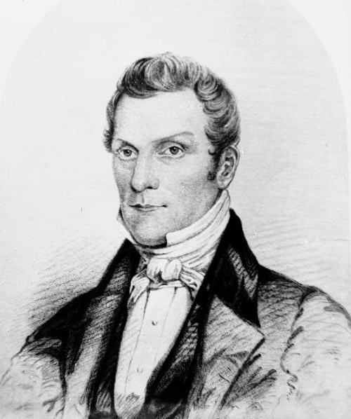 A copy of a drawing of Hyrum Smith, brother of the prophet Joseph Smith, Jr.